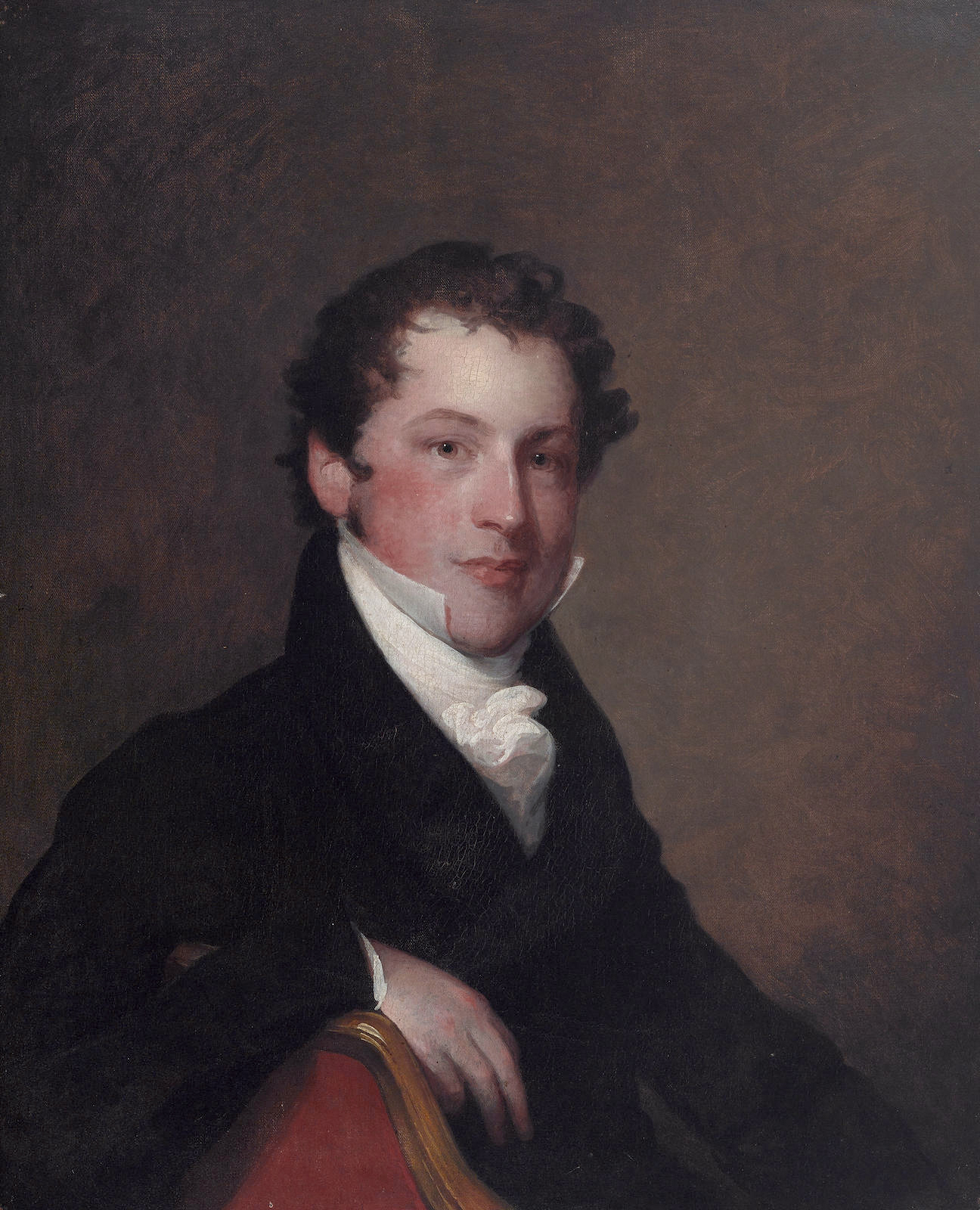 Samuel Atkins Eliot oil on canvas 76 x 62 cm circa 1808